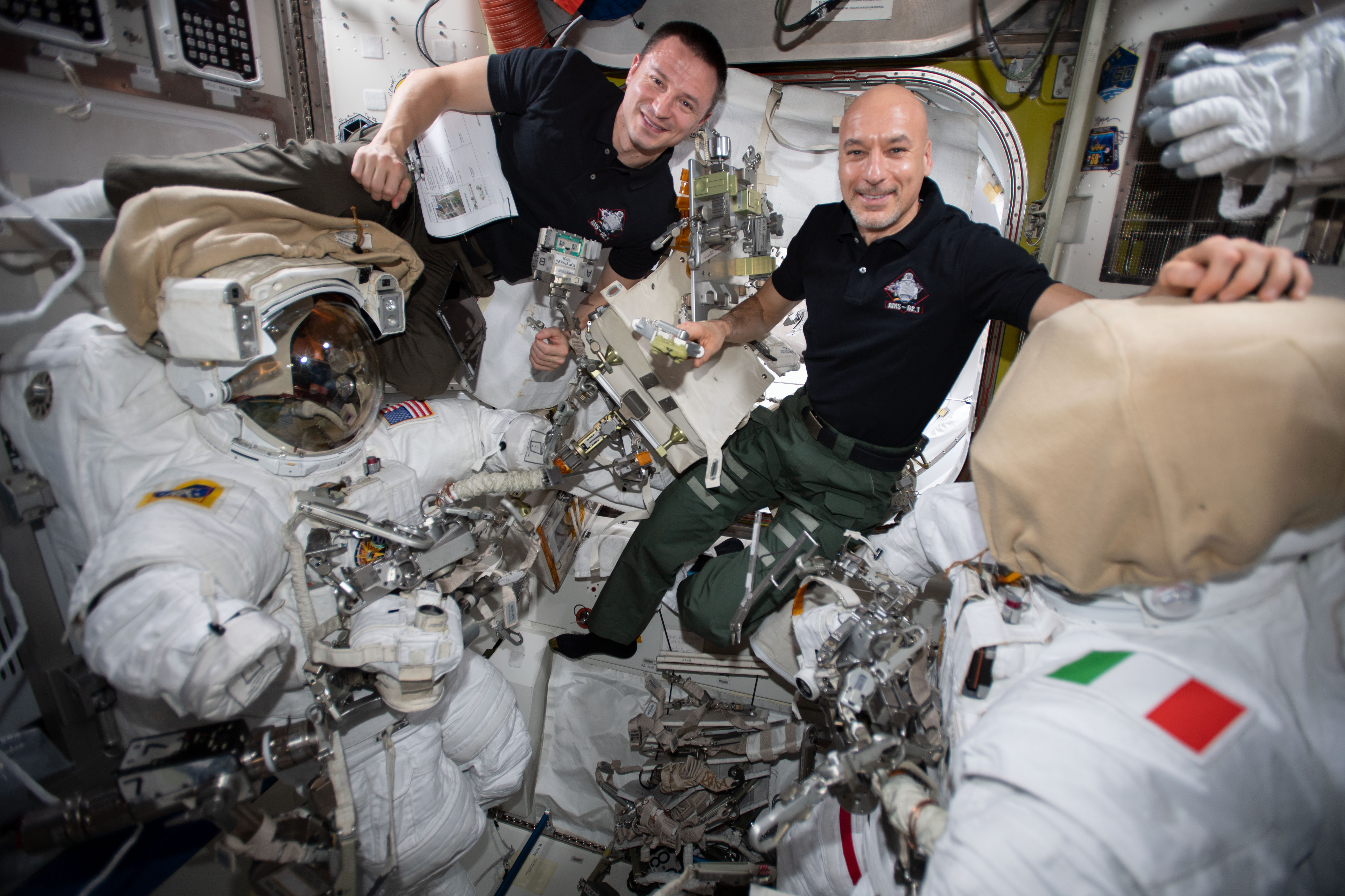 (From left) NASA astronaut Andrew Morgan and ESA (European Space Agency) Commander Luca Parmitano work inside the Quest airlock checking U.S. spacesuits and spacewalking tools. The duo will conduct several spacewalks in November to upgrade the Alpha Magnetic Spectrometer's (AMS) thermal control system. The AMS is the International Space Station's cosmic particle detector.